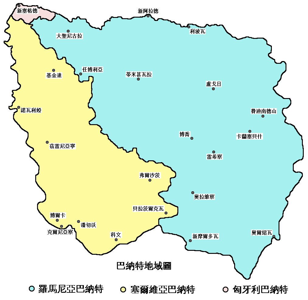 Map of Banat in Chinese.